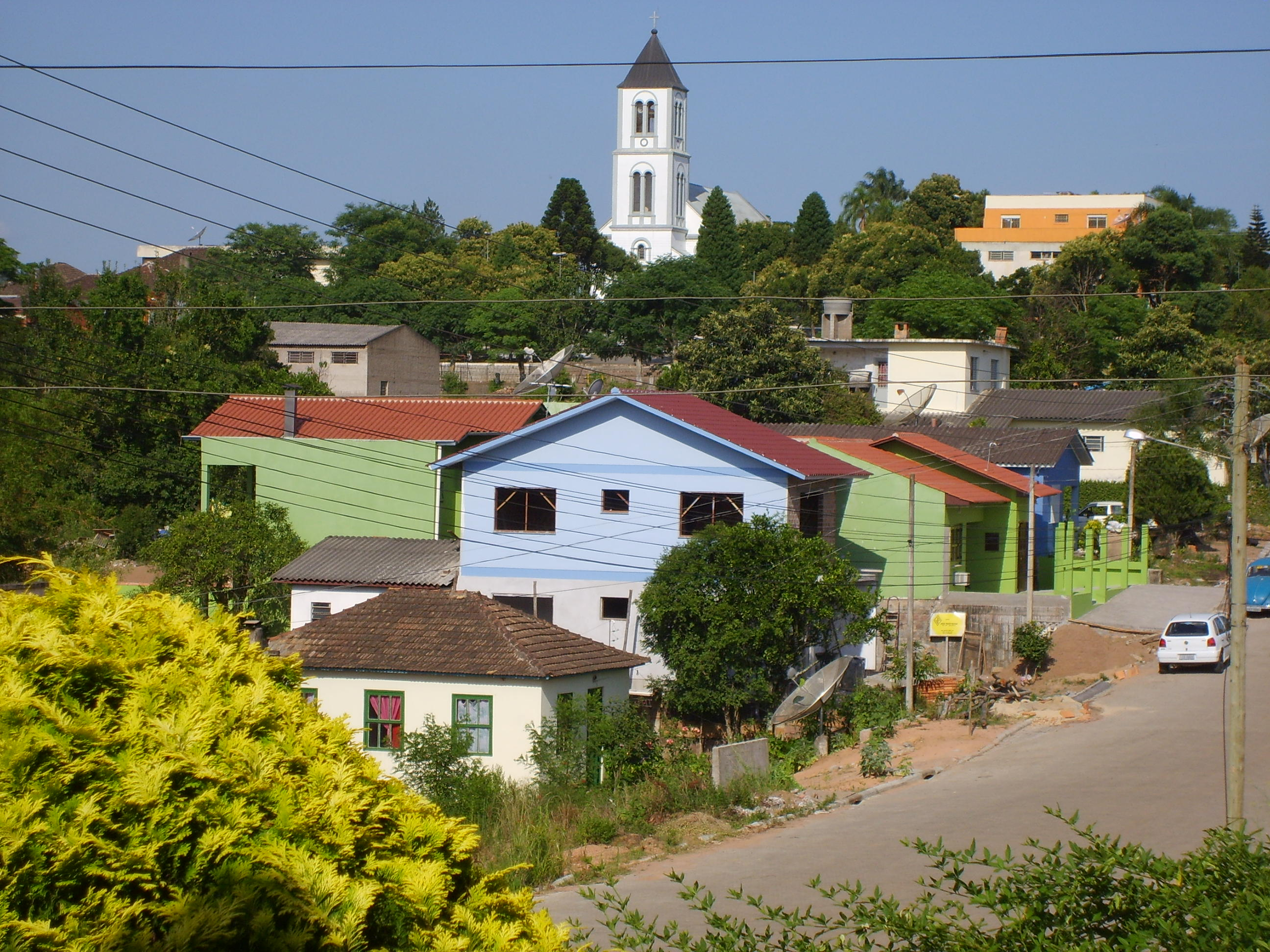 DOM FELICIANO - IGREJA MATRIZ